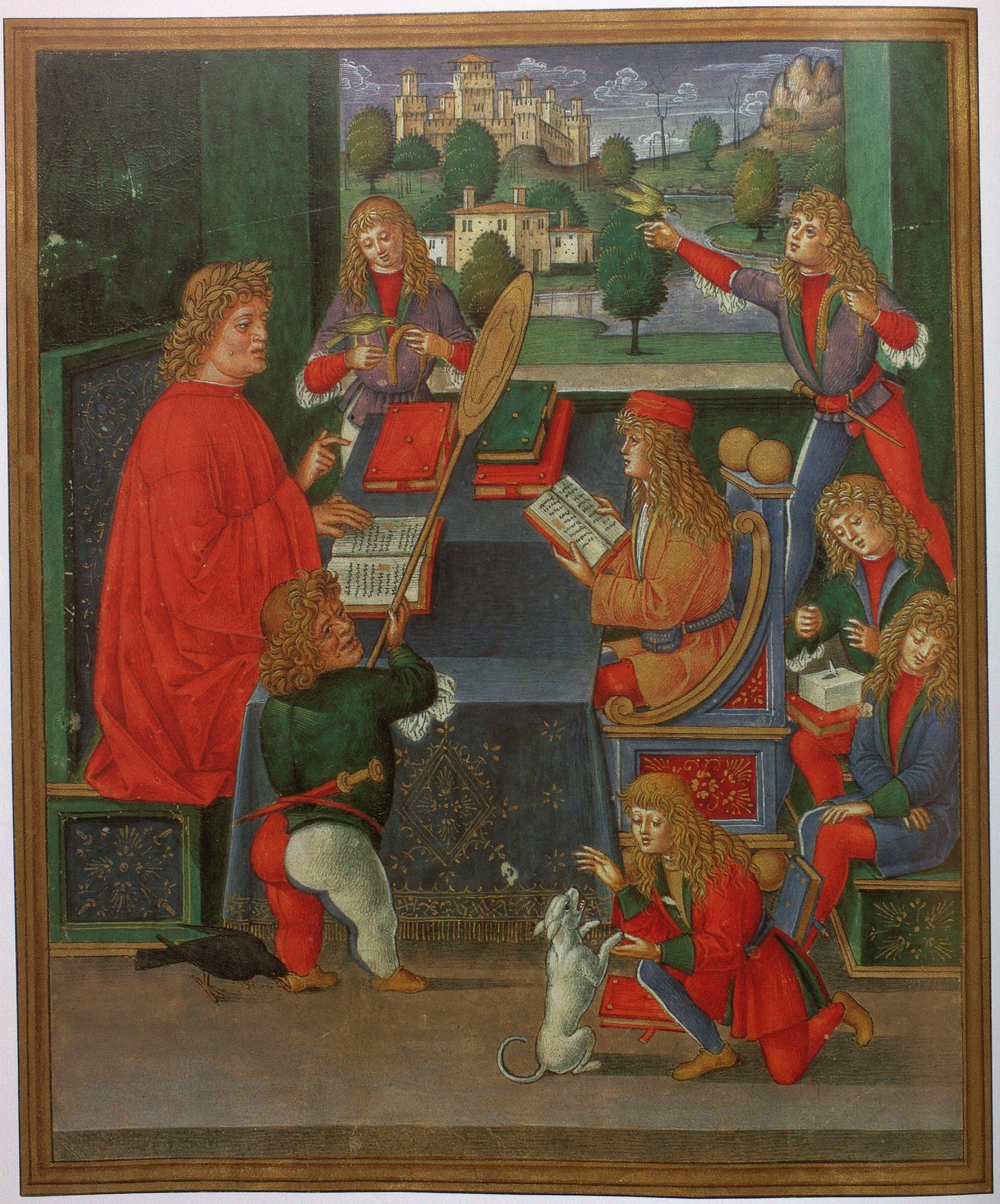 Massimiliano Sforza as a pupil with his teacher Gian Antonio Secco (left). Miniature in Massimiliano’s copy of Aelius Donatus’ Latin grammar book (Ars minor). Manuscript: Milan, Biblioteca Trivulziana, Ms. 2167, fol. 13v. The manuscript was written for Massimiliano.